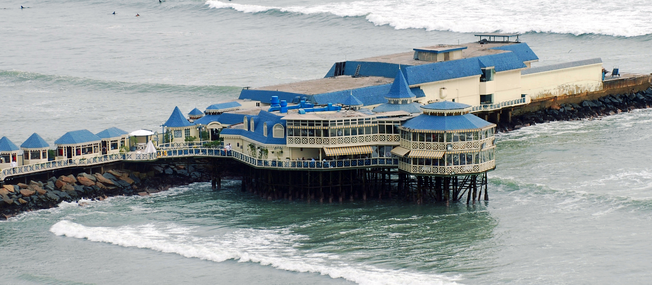 Restaurante Rosa Nautica en Lima, Perú